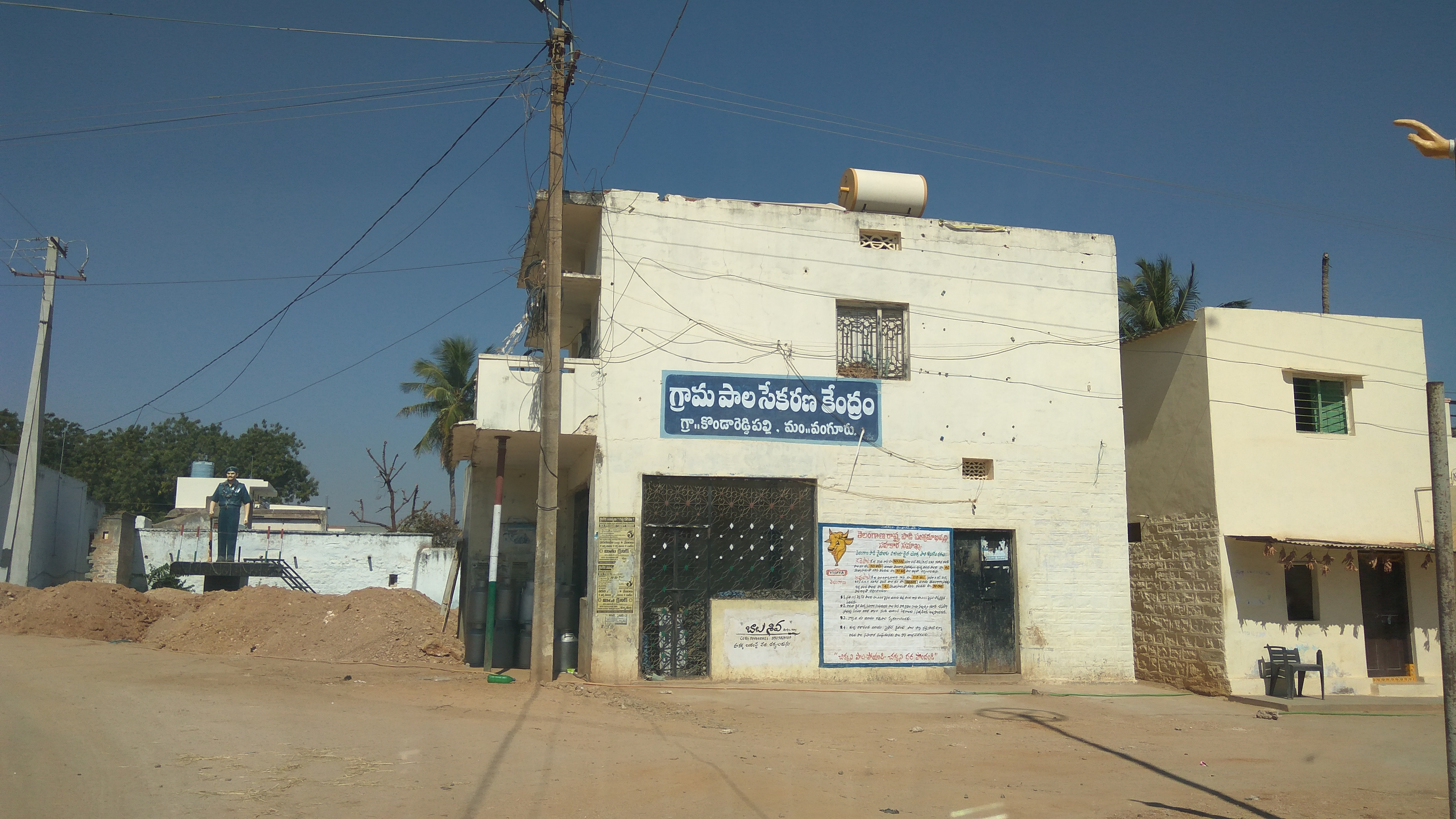 Milk Center in Kondareddypalli Village, Vangooru Mandal, Nagar Karnool District Telangana State